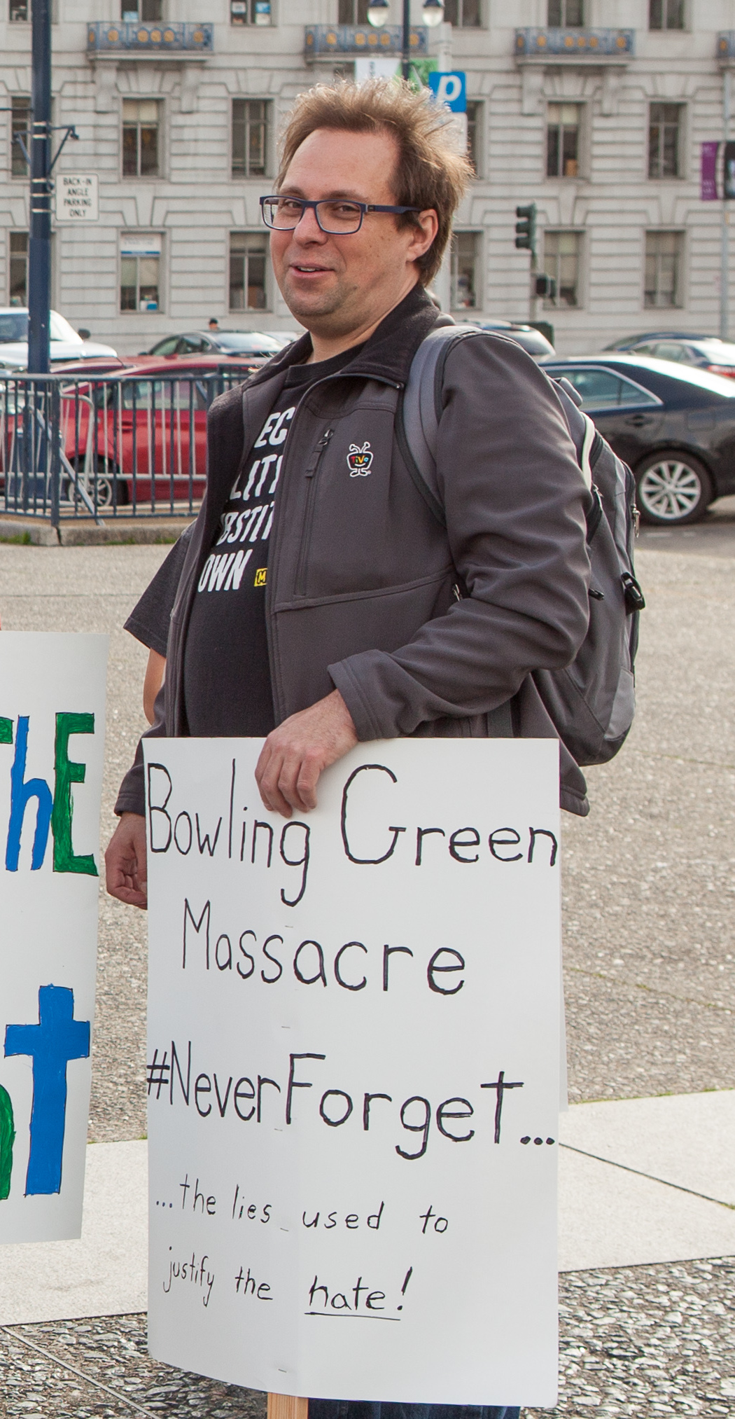 San Francisco protesters of the U.S. immigration ban hold signs reading "Muslim Ban Unfair", "Love Doesn't Discriminate", "One Nation", "No Hate", "Stop The Fight", and "Bowling Green Massacre #NeverForget... the lies used to justify the hate!"